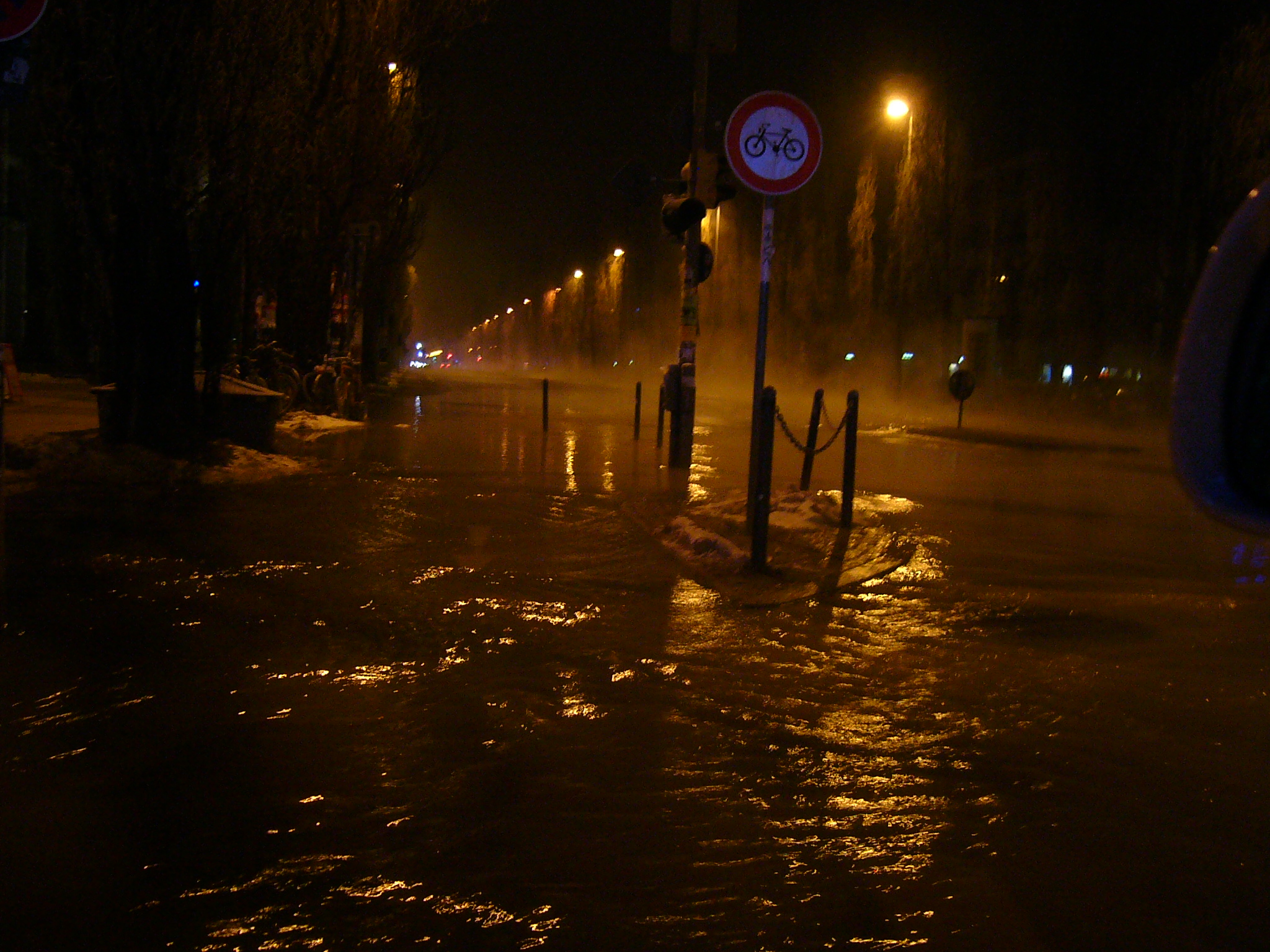 Temporary flood after a water pipe blast in Munich (Bayern, Germany), Germany, January 11th, 2006 (at night) at Leopoldstraße (Schwabing)